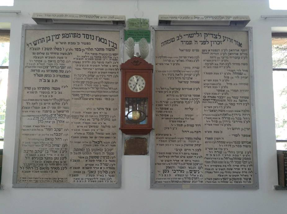 Or Zaruaa Synagogue Jerusalem Israel, interior of building shows two memorial marble walls, major donator Yamin Ben Harroch.